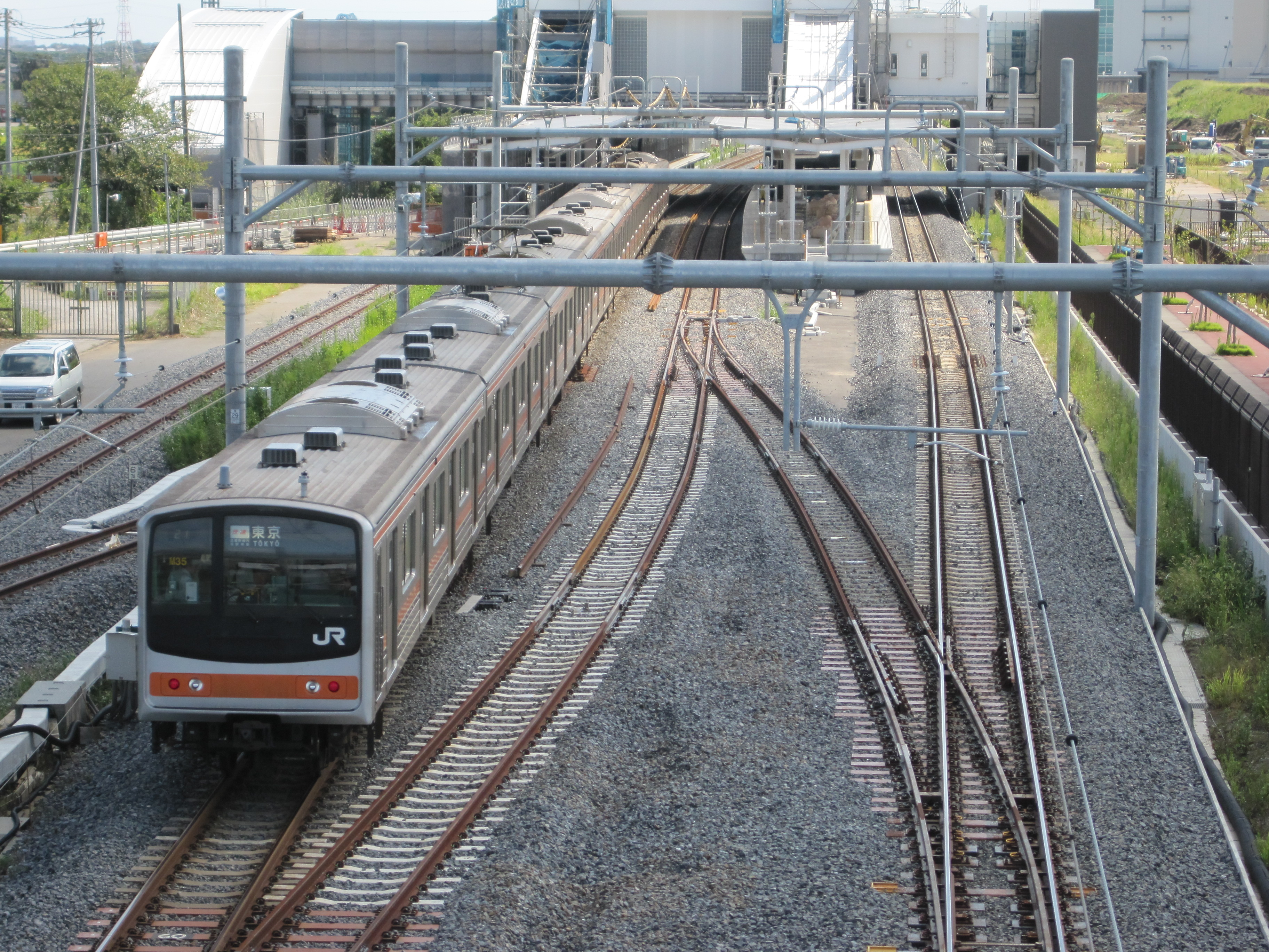 Yoshikawa-Minami Station under construction on the Musashino Line